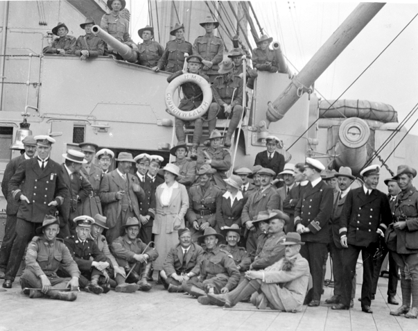 A group portrait of members of the AIF visiting HMS Commonwealth, during an Agricultural class tour.